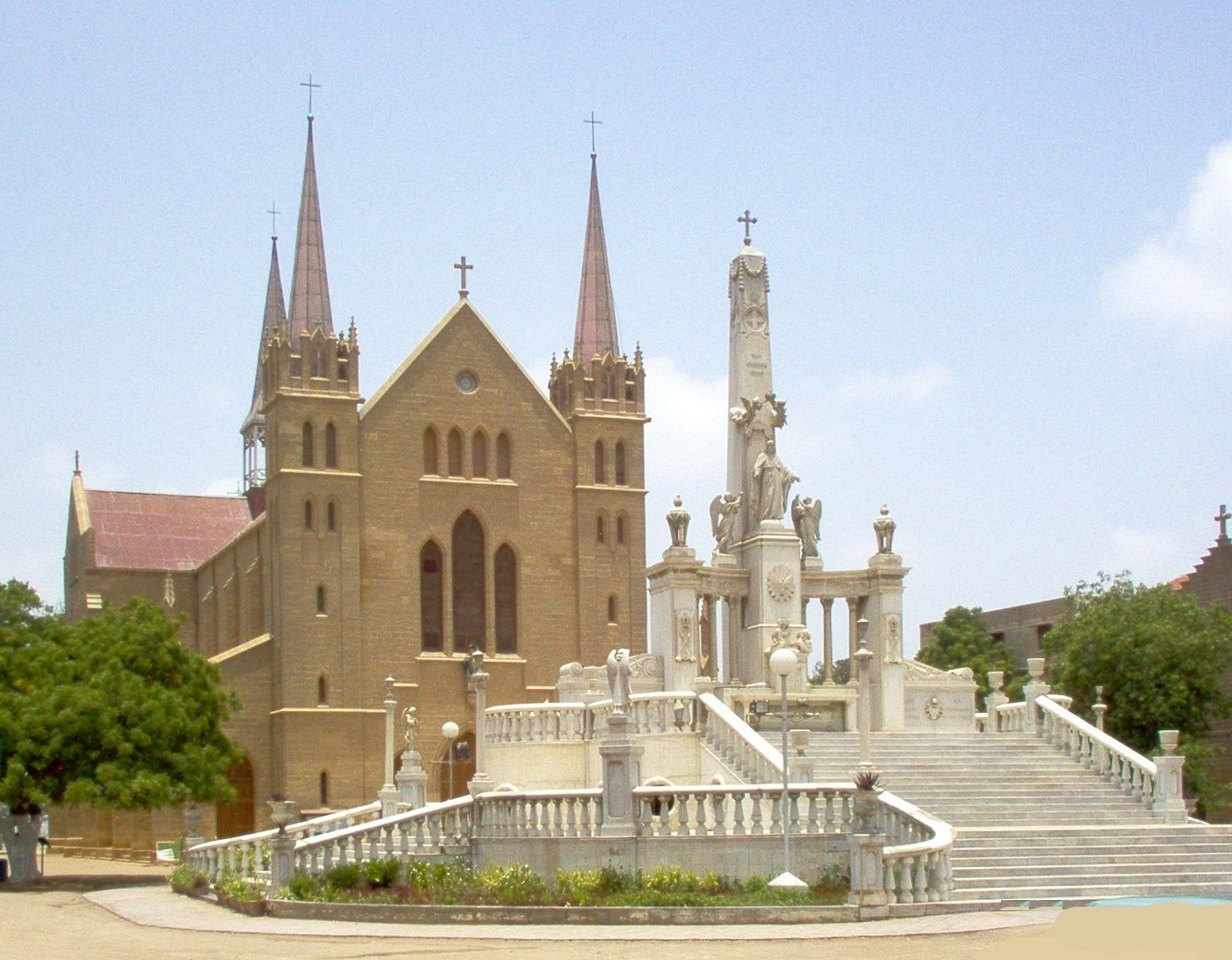 Source: en.wikipedia